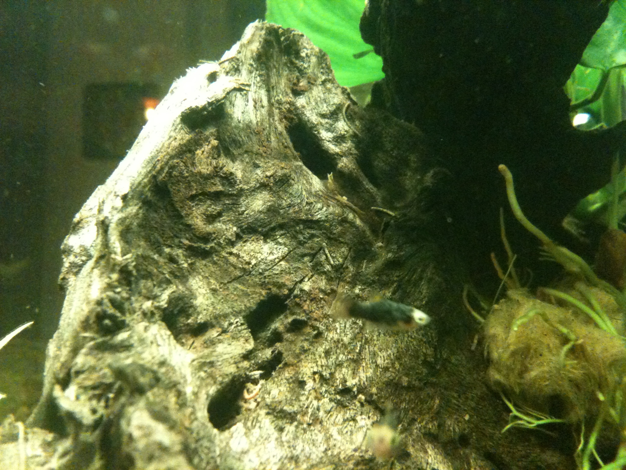 Platy after 3 weeks